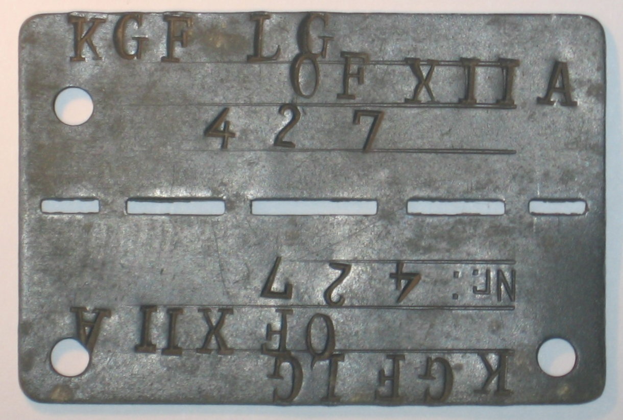 Dog tag (identifier) of Polish soldier in German camp 1939-1944